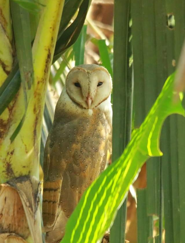 Eastern Barn Owl Tyto javanica stertens, Thrissur district, Kerala